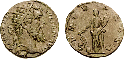 PNG version of Image:Dupondius-Didius Julianus-RIC 0012.jpg, to remove white background. Description: Didius Julianus, 193 AD. AE Dupondius. IMP CAES M DID IVLIAN AVG, radiate head right P M TR P COS, S-C low across field, Fortuna Redux standing facing, head left, holding rudder set on globe in right hand and cradling cornucopia in left arm. RIC IV 12 (same obverse die); Woodward, Julianus pg. 86 (dies 2/D); BMCRE 19 (same obverse die); Cohen 13.